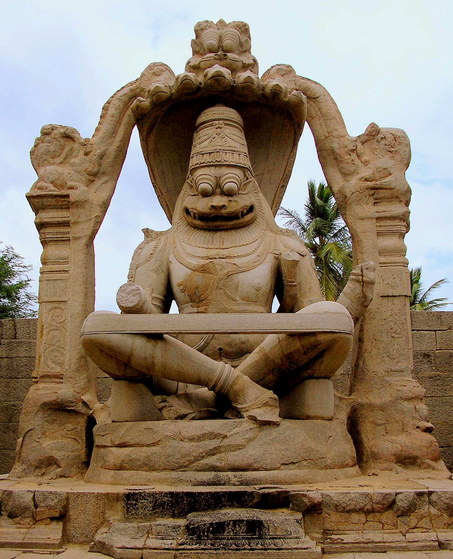 Derivative of work uploaded by User:BRK on wikipedia